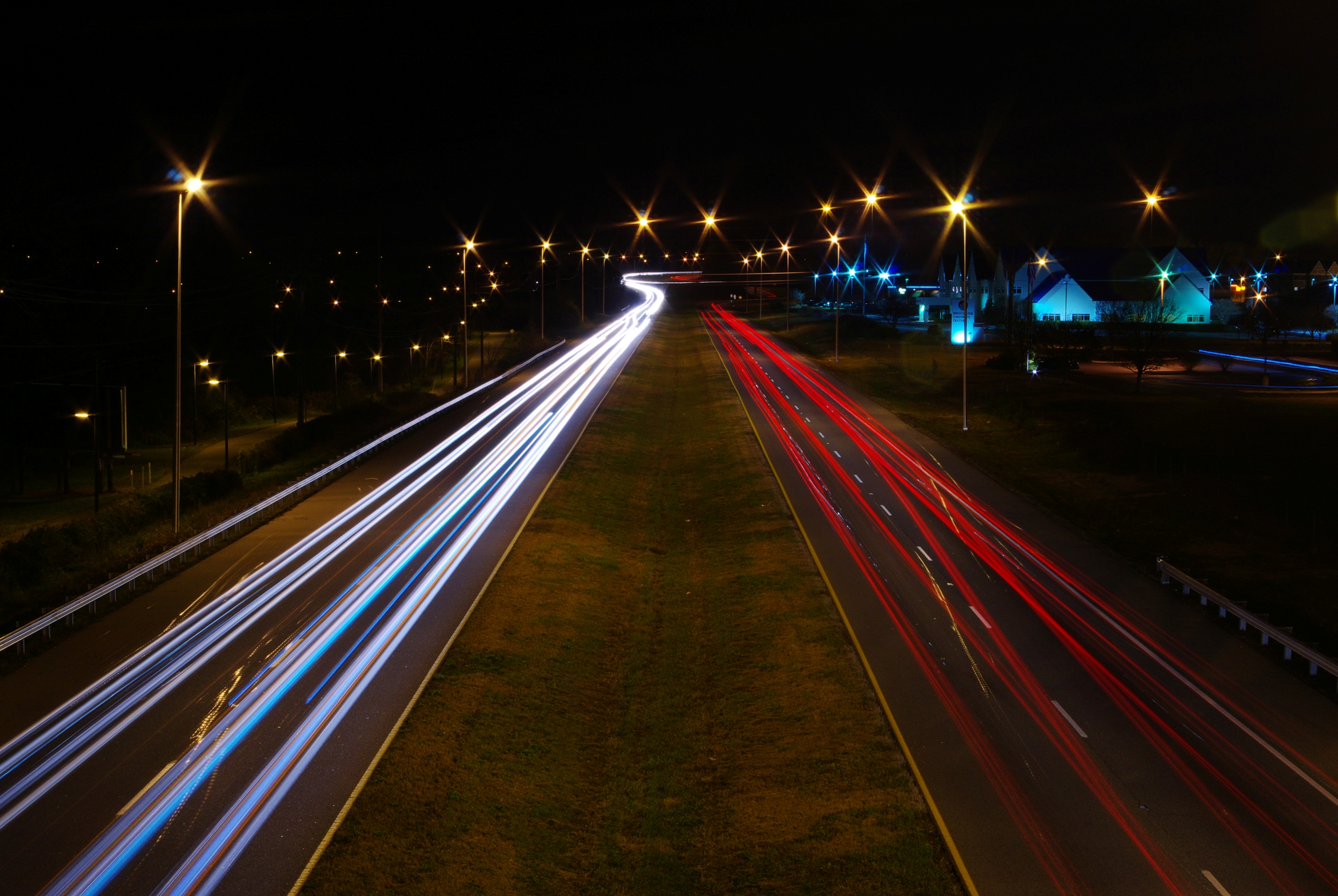 Alcoa Highway on Black Friday. Photographed from the pedestrian bridge over Alcoa Highway (part of U.S. Route 129) in Alcoa, Tennessee, USA.